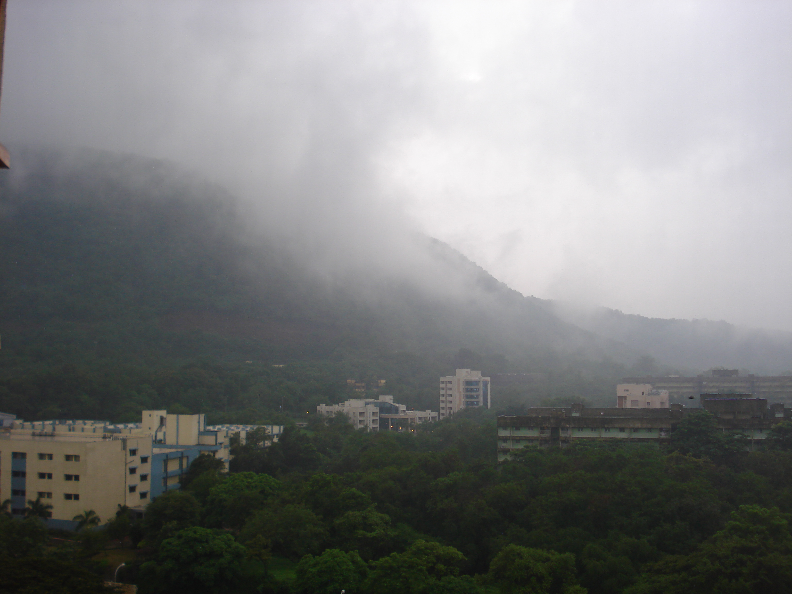 Clouds had come pretty low that day.